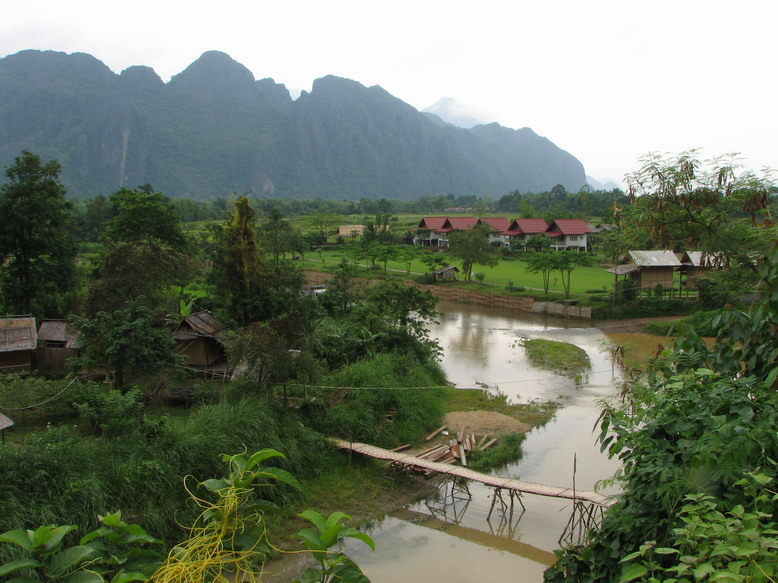 Vang Vieng, Laos.